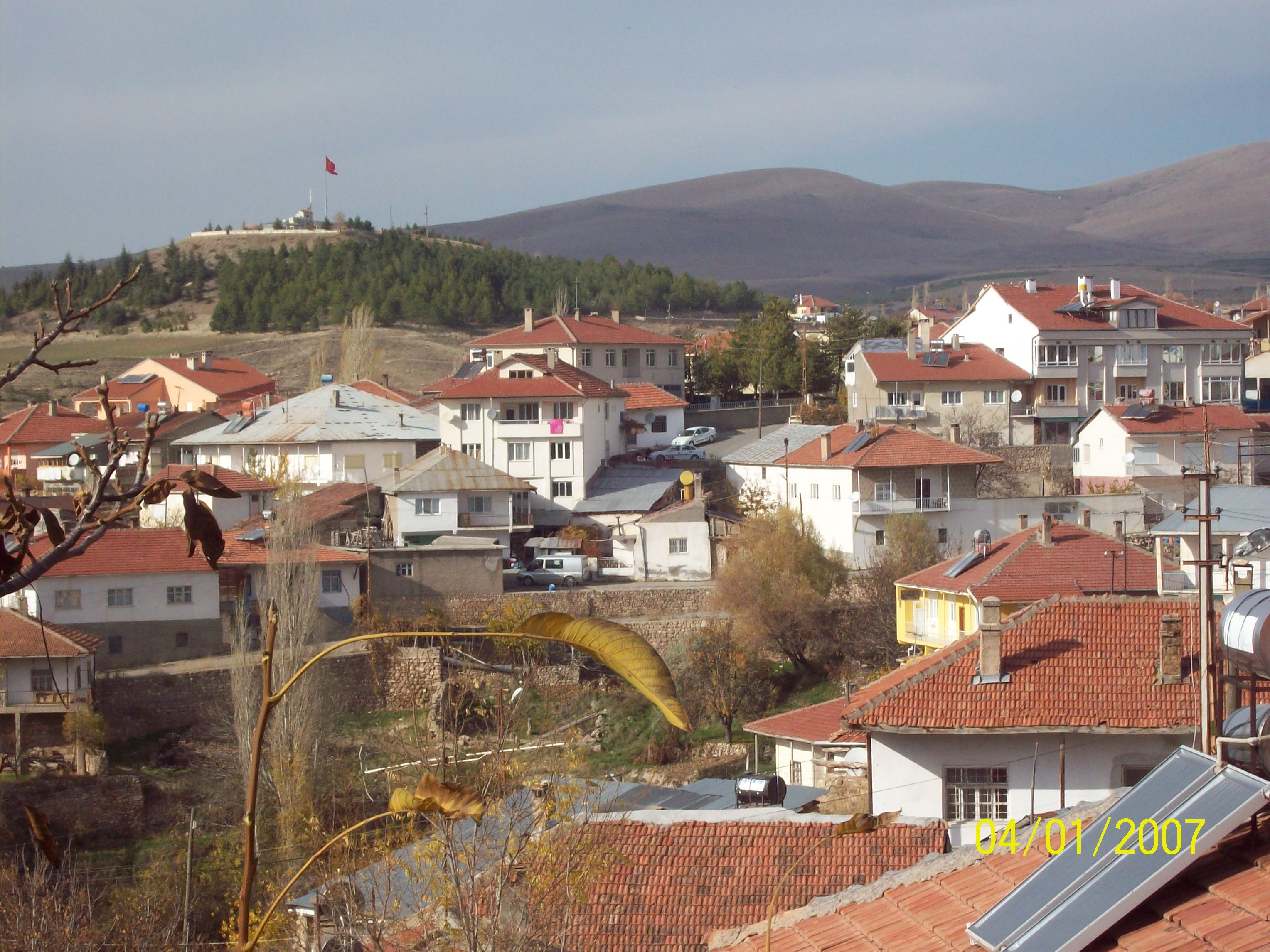 Kuş Tepesi ve İnkışla